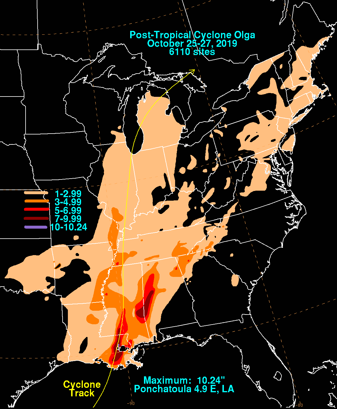 A map depicting rainfall observations across the Eastern United States in association with the remnants of Tropical Storm Olga in late October 2019.